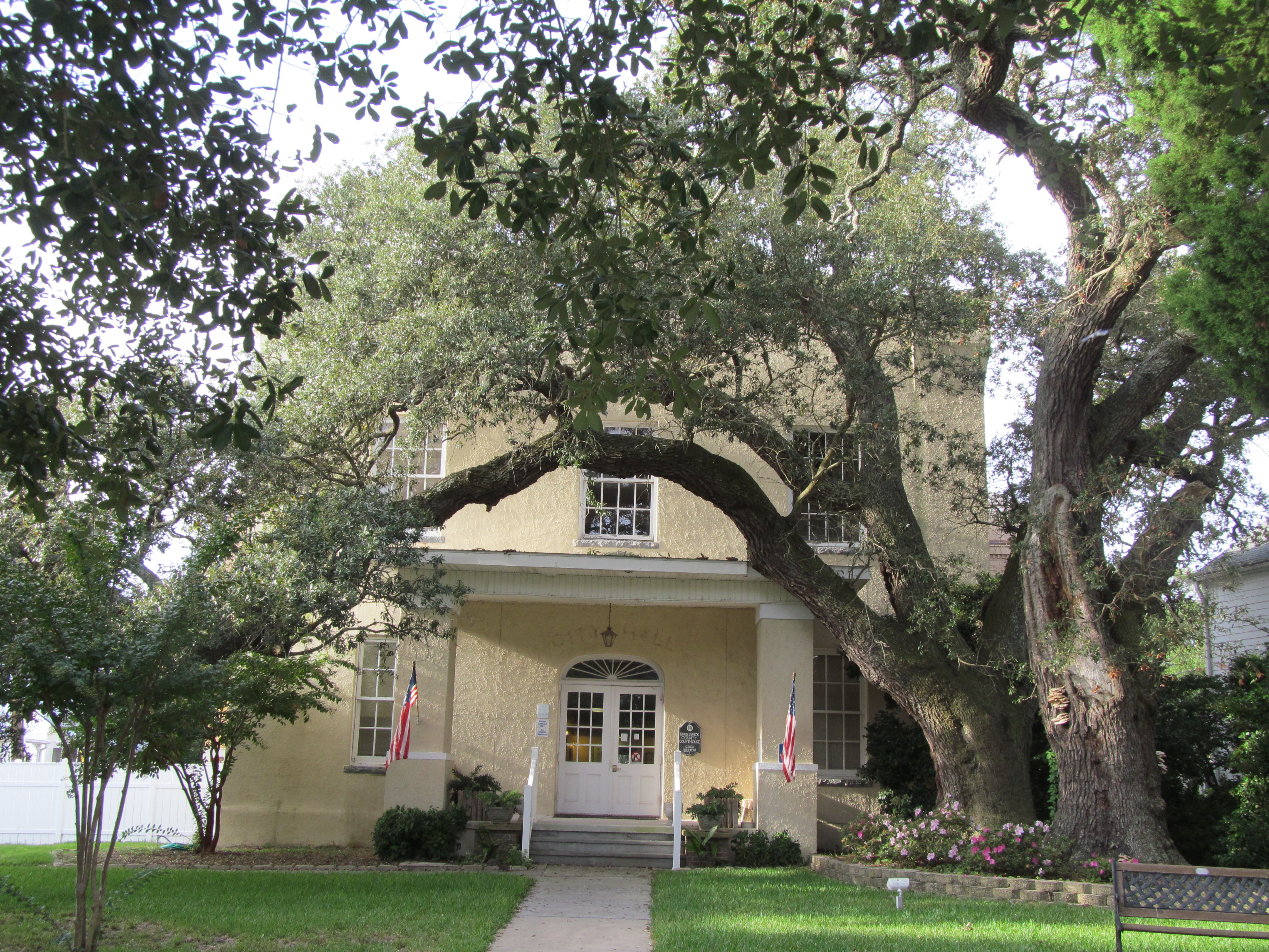 Brunswick County Courthouse, Davis and Moore Sts. Southport